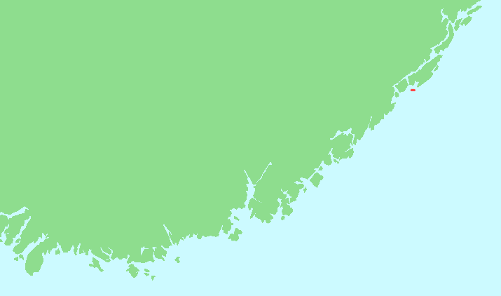 Locator map of Merdø, Aust-Agder, Norway